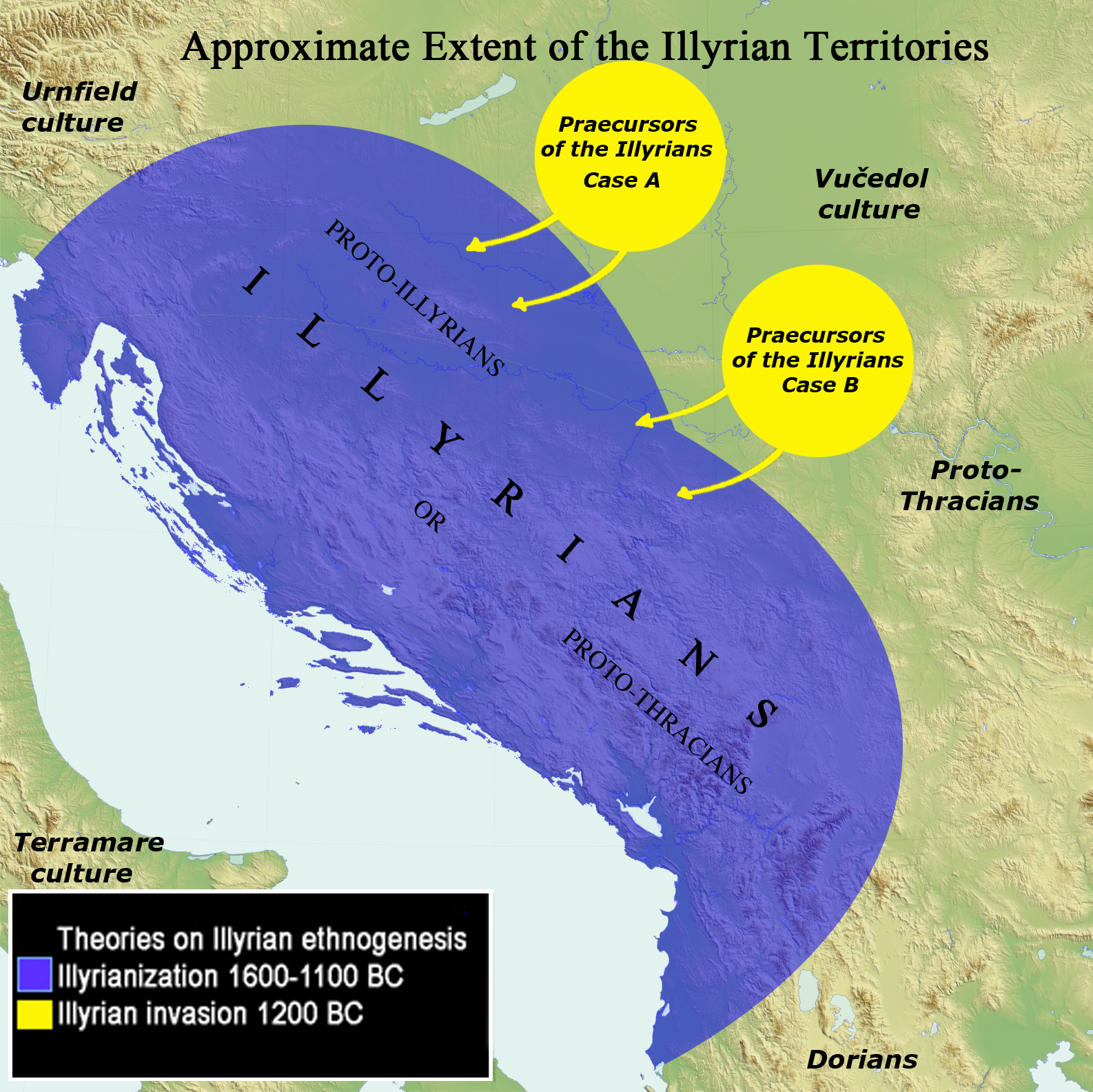 map of "Etnogenesis of the illyrians"